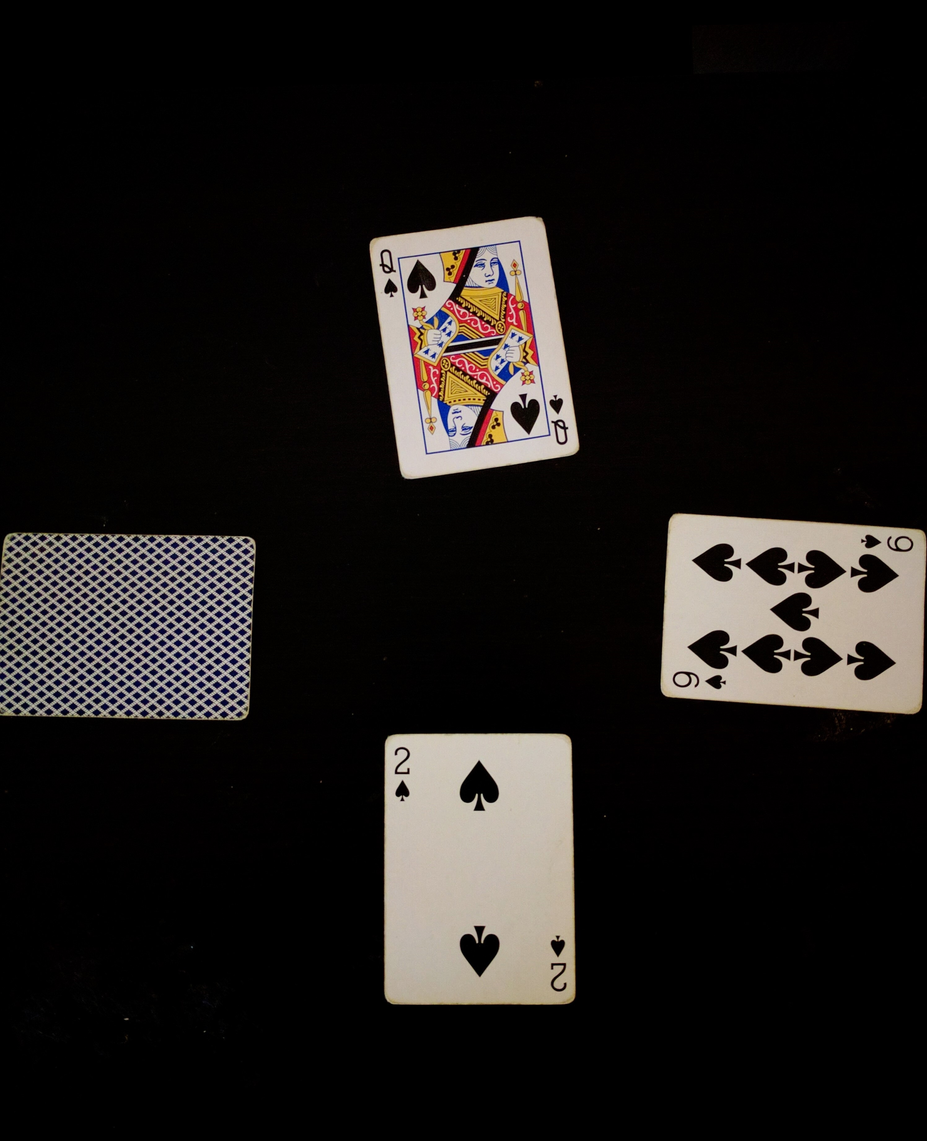 A trick of "truf" card game.